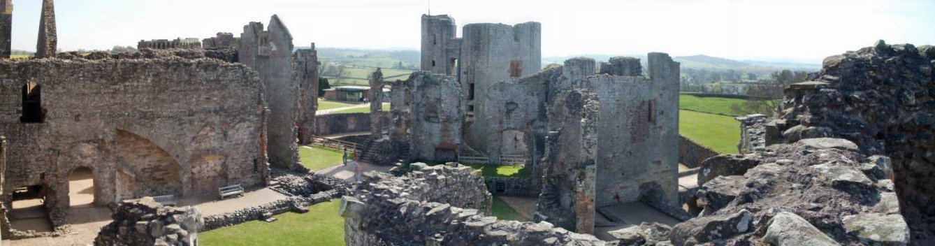 Panoramic photo of Raglan Castle